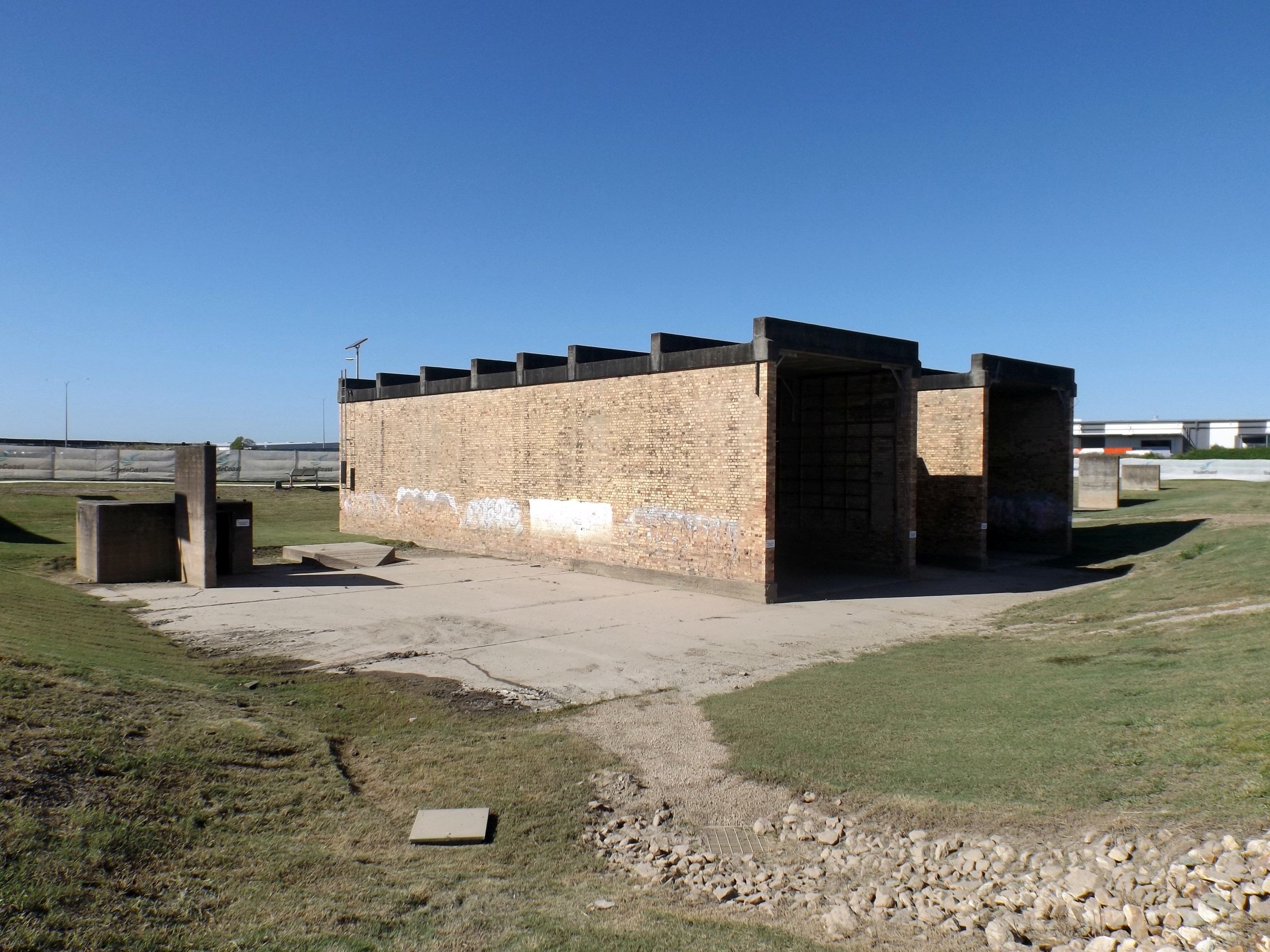 Photo of the remains of the Allison Engine Testing Stands at Eagle Farm, Brisbane, Queensland, Australia.